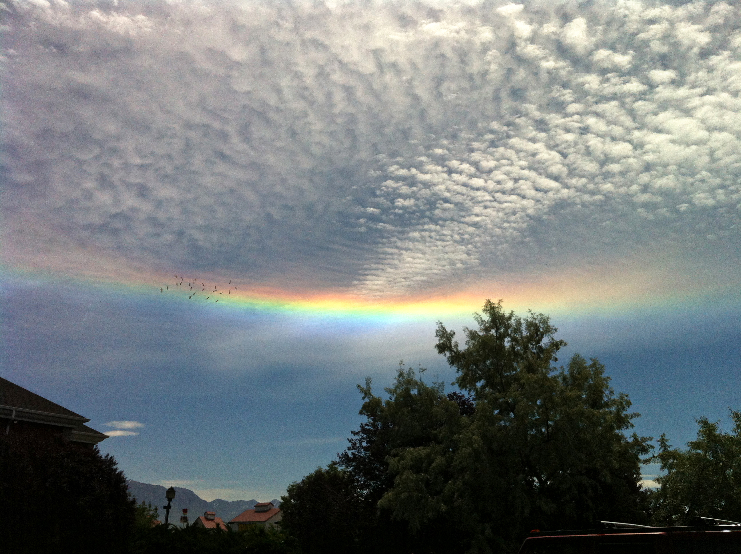 Circumhorizontal arc in Lehi, UT at approx 11:45 AM June 12, 2012